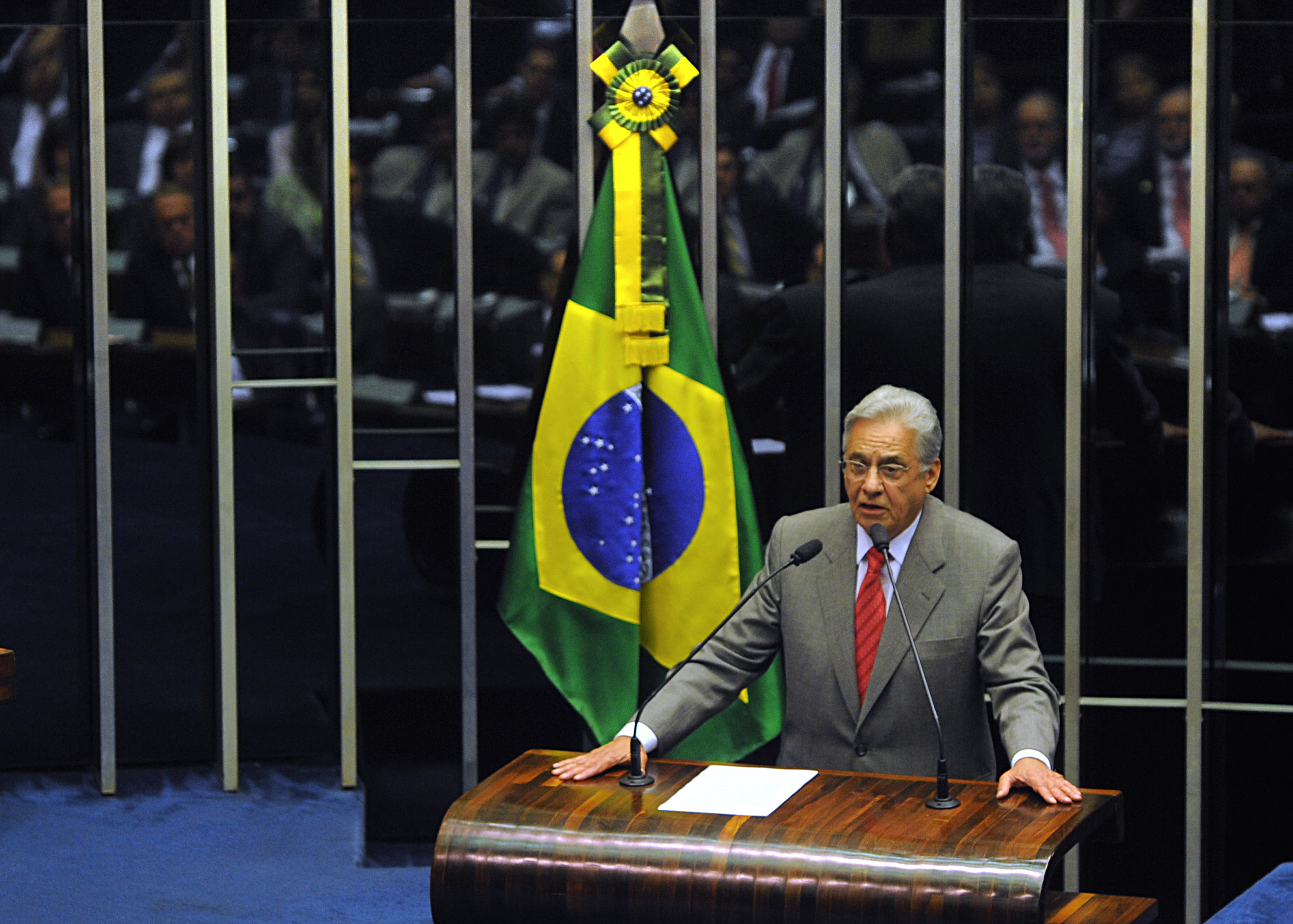 The Brasil's ex-president Fernando Henrique Cardoso have 'historic moment' in brazilian National Congress.